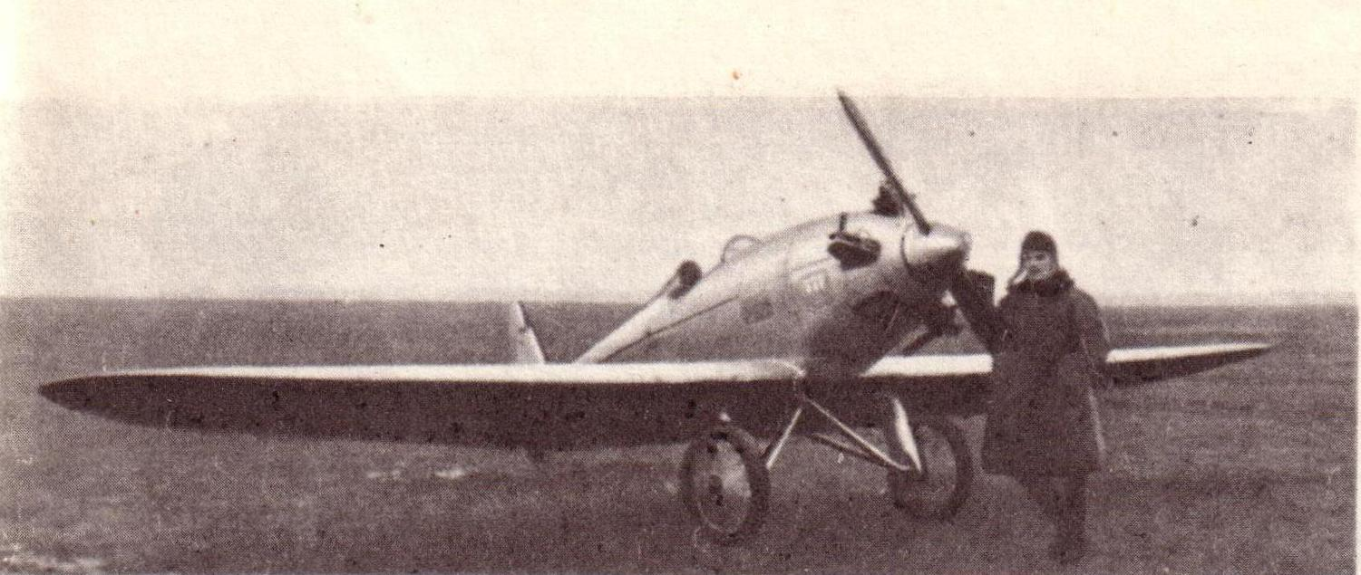 Airplane Design Gribovsky G-8